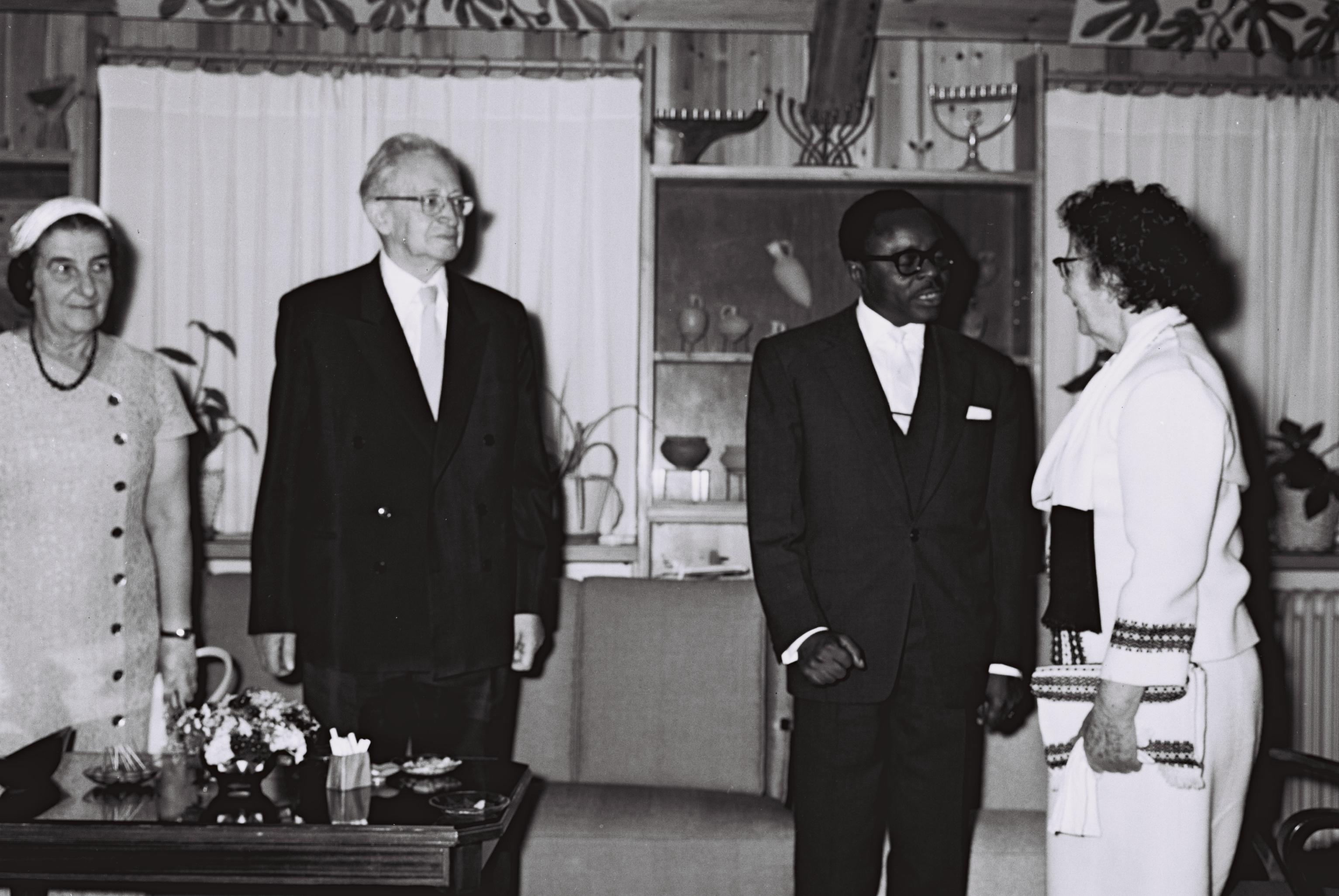 President of Upper Volta, Maurice Yaméogo, with President of Israel Yitzhak and Ben Zvi and his wife.